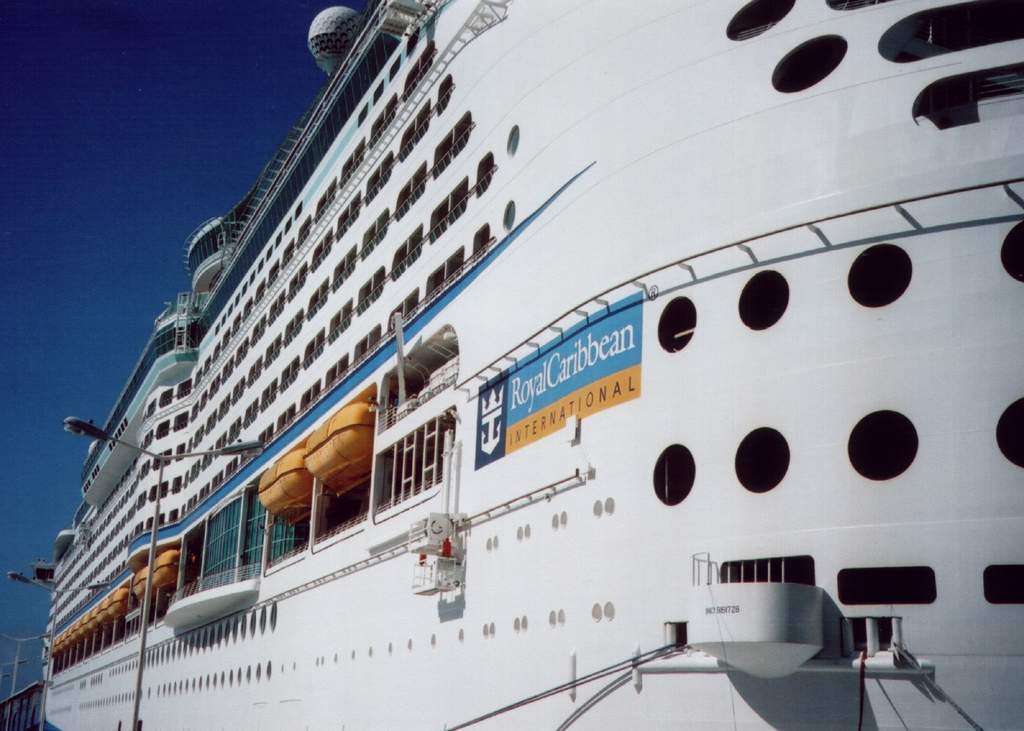 Port side, as viewed from the stern, of the Explorer of the Seas, docked at Philipsburg, Sint Maarten, Netherlands Antilles.